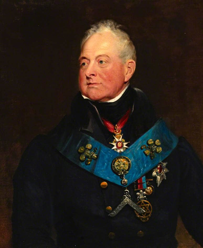 William IV (1765–1837), When Duke of Clarence